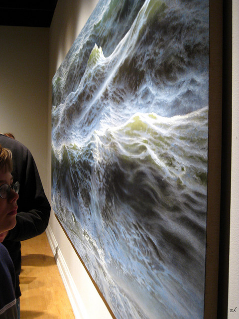 ArtPrize 2009 winner 6 foot by 19 foot (1.8 m x 5.8m)[1] oil painting of the ocean waves[2] hosted at Grand Rapids Old Federal Building